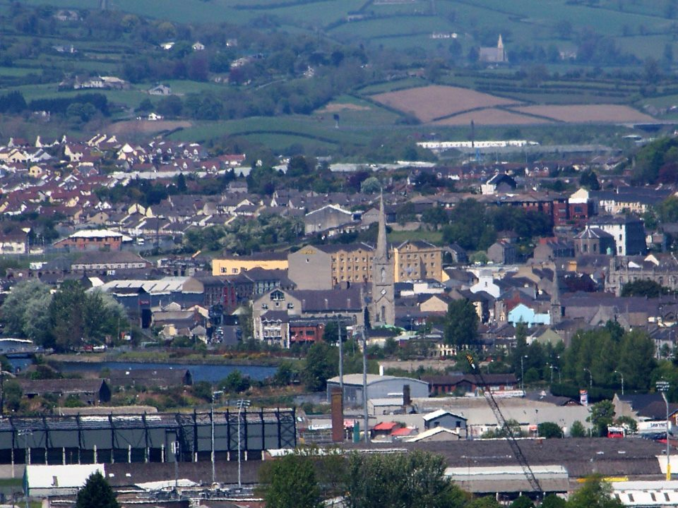 View of Newry looking north over Pairc Esler the city centre